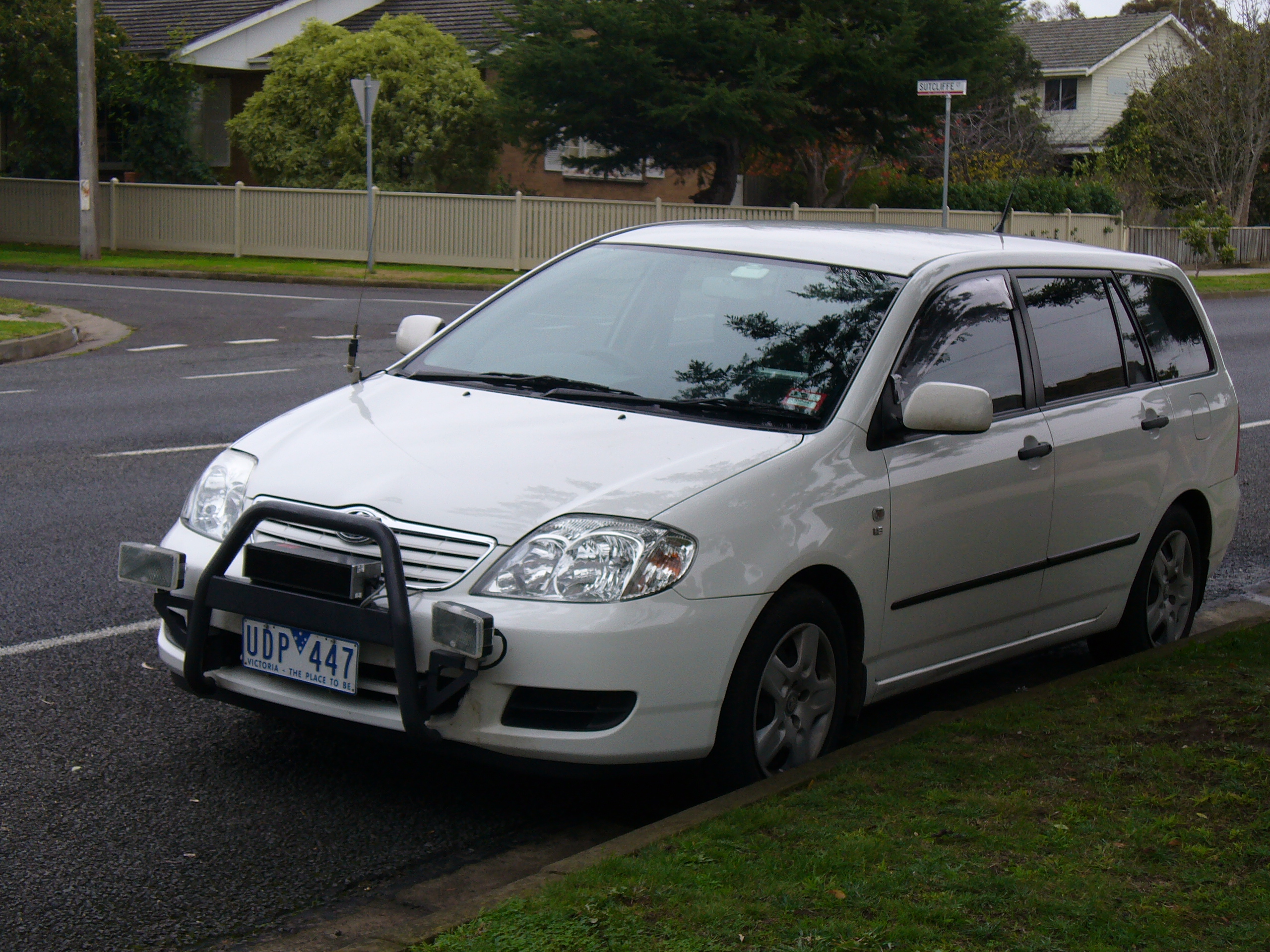 Gatso mobile speed camera mounted on a 2004–2006 Toyota Corolla (ZZE122R 5Y) Ascent station wagon, photographed in Geelong, Victoria, Australia.